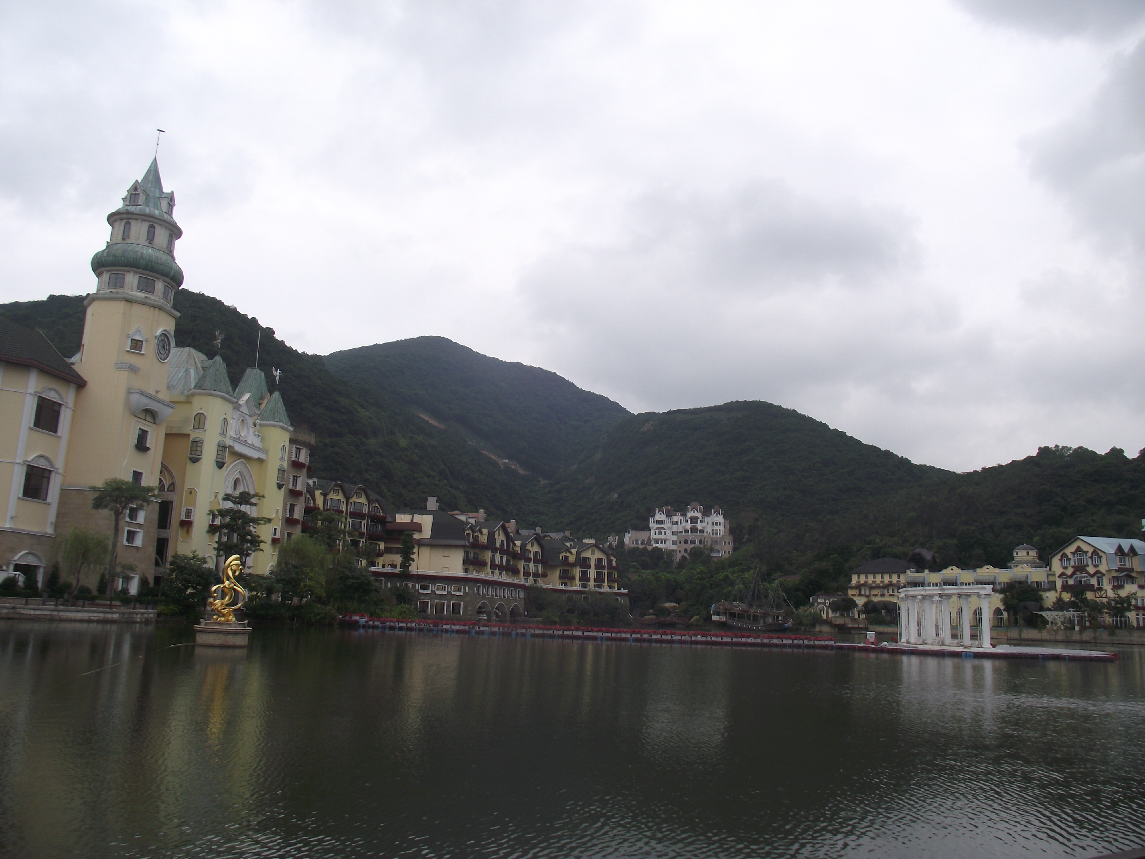 Buildings of western style in the OCT, Shenzhen, China.